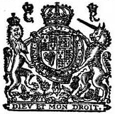 Ornament from Page 2 of Gilbert Foliot's Expositio in Canticum Canticorum